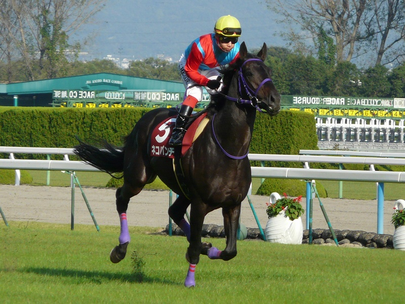 Neko-punch20111009